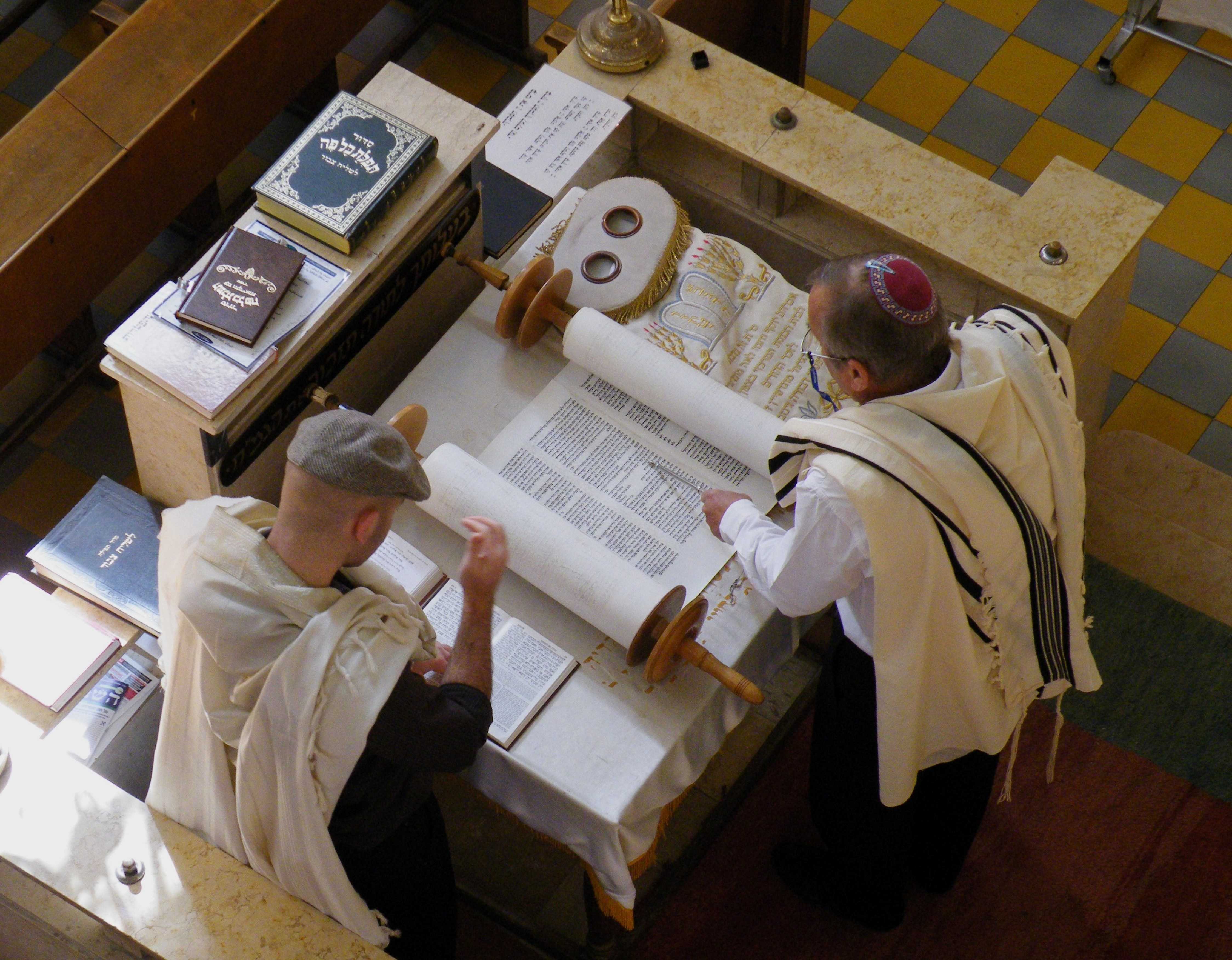 Reading of the Torah, Aish Synagogue, Tel Aviv, Israel.